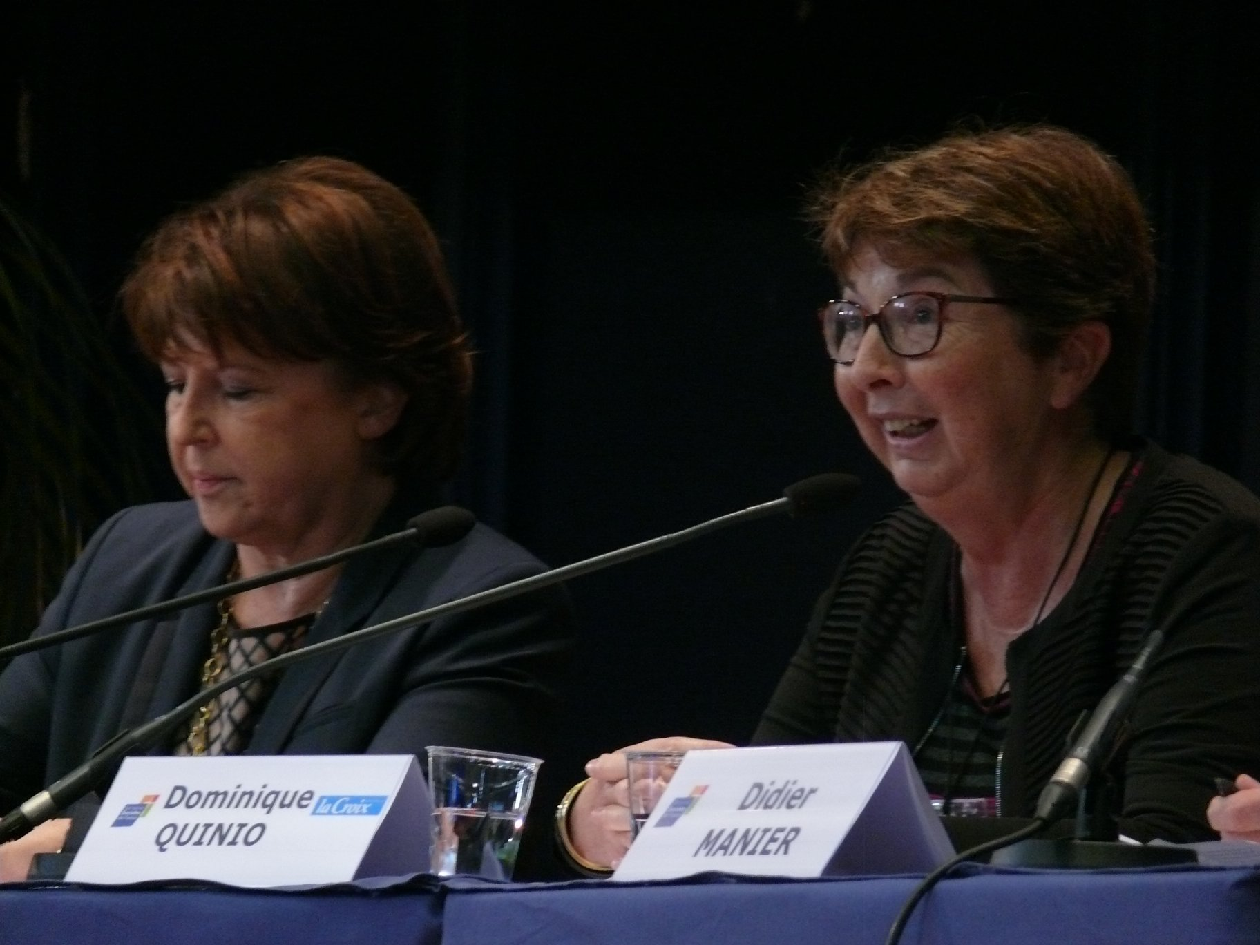 Martine Aubry and Dominique Quinio at the Semaines Sociales de France 2014 at Université Catholique de Lille (Nord, France).